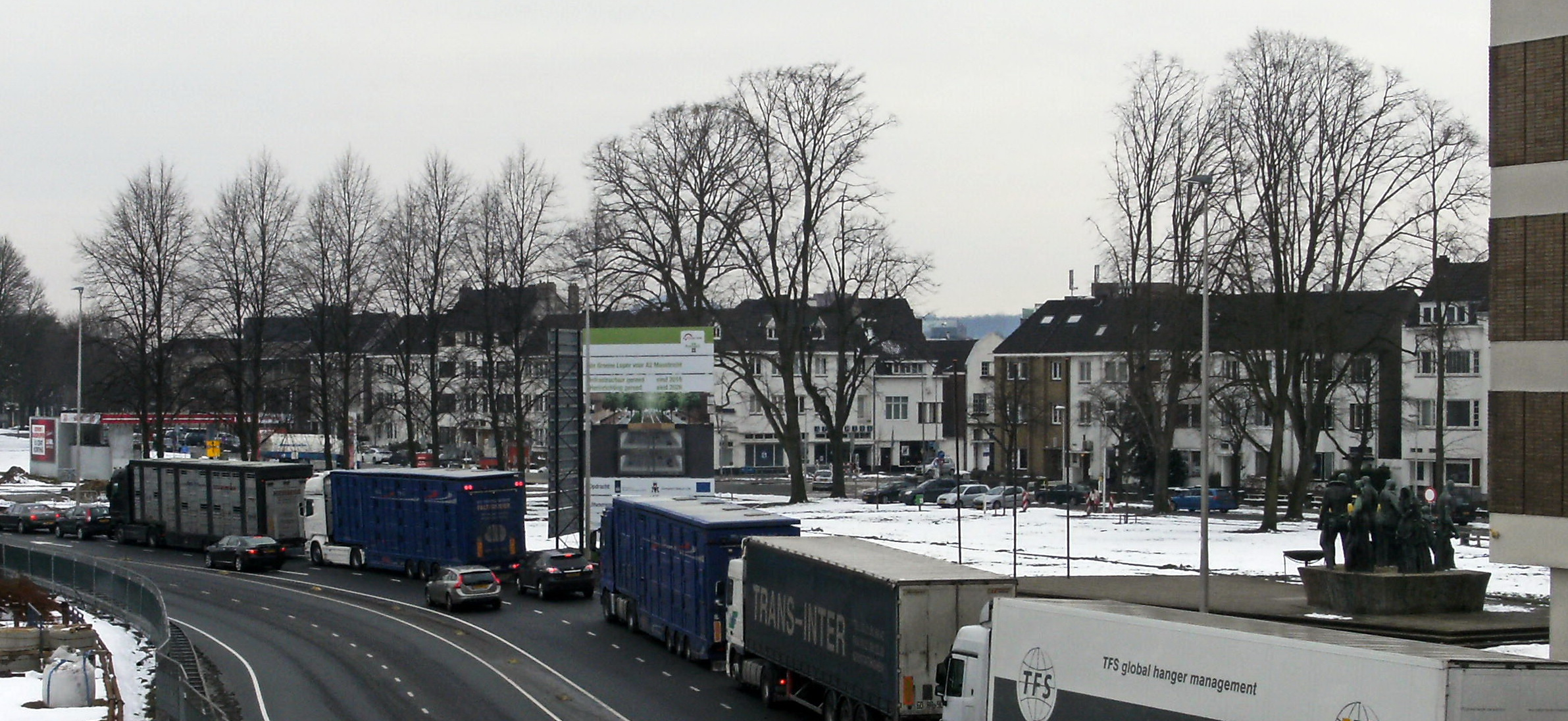 View of Koningsplein-Oranjeplein during A2 tunnel project, March, 2013. Detail of a photograph uploaded by Mark Ahsmann.